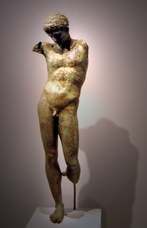 Bronze boy, National Archaeological Museum of Athens.